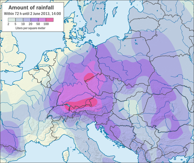 Map of 72h rain falls in Central Europe until 2 June 2013